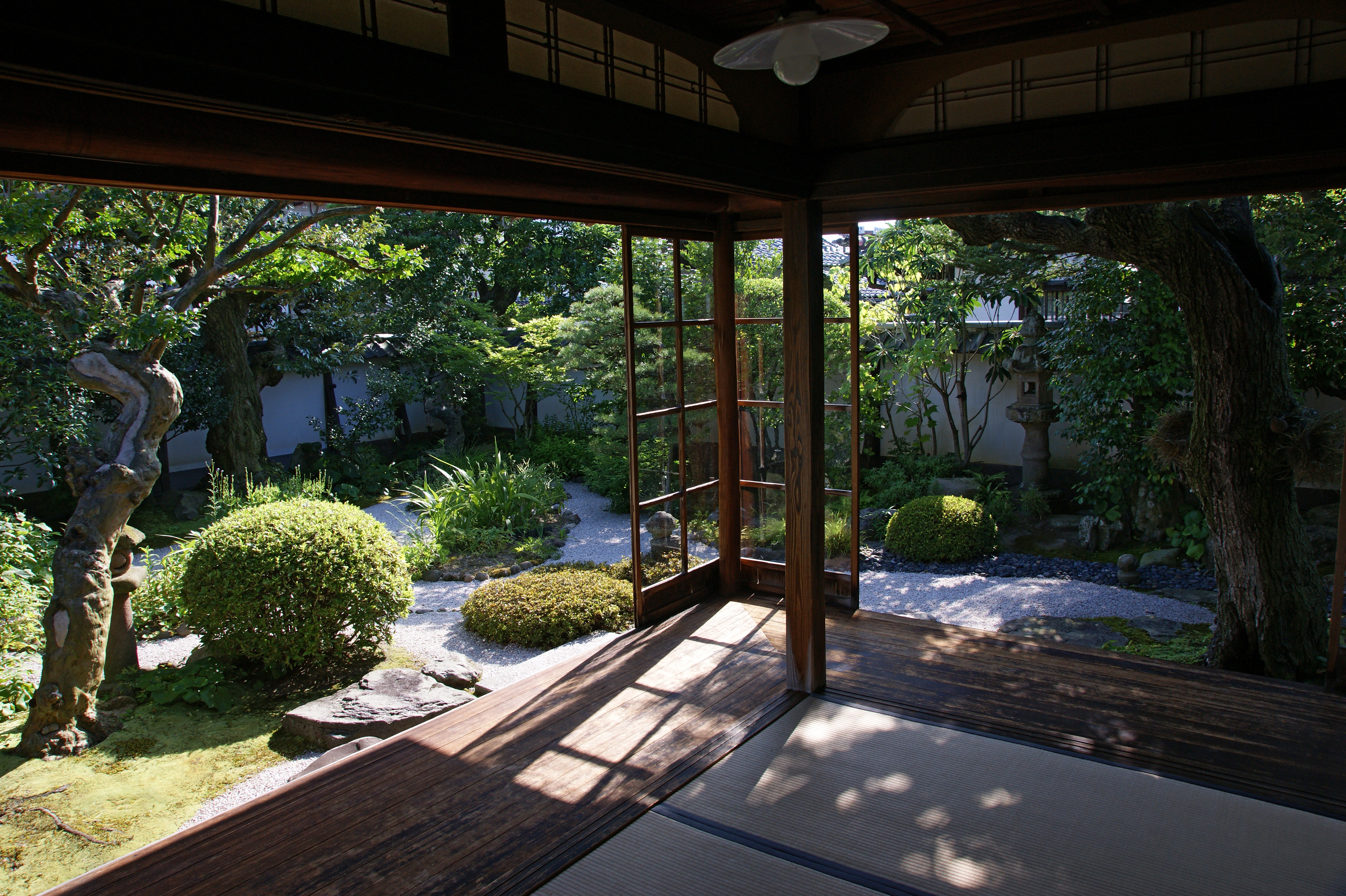 Lafcadio Hearn's Old Residence in Matsue, Shimane prefecture, Japan